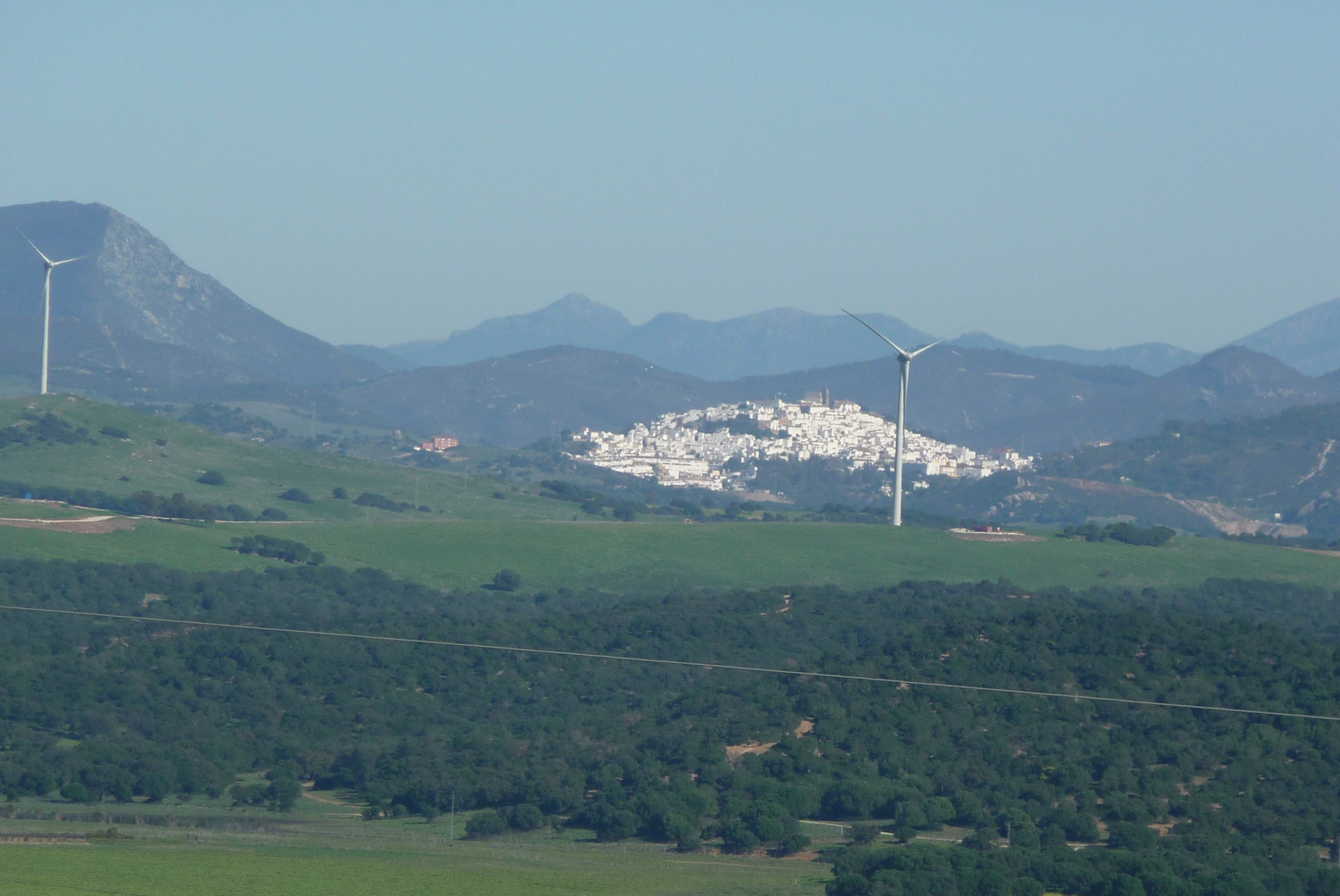 Alcalá de los Gazules from panoramic view high-restaurant in Benaluo — Casas Viejas.